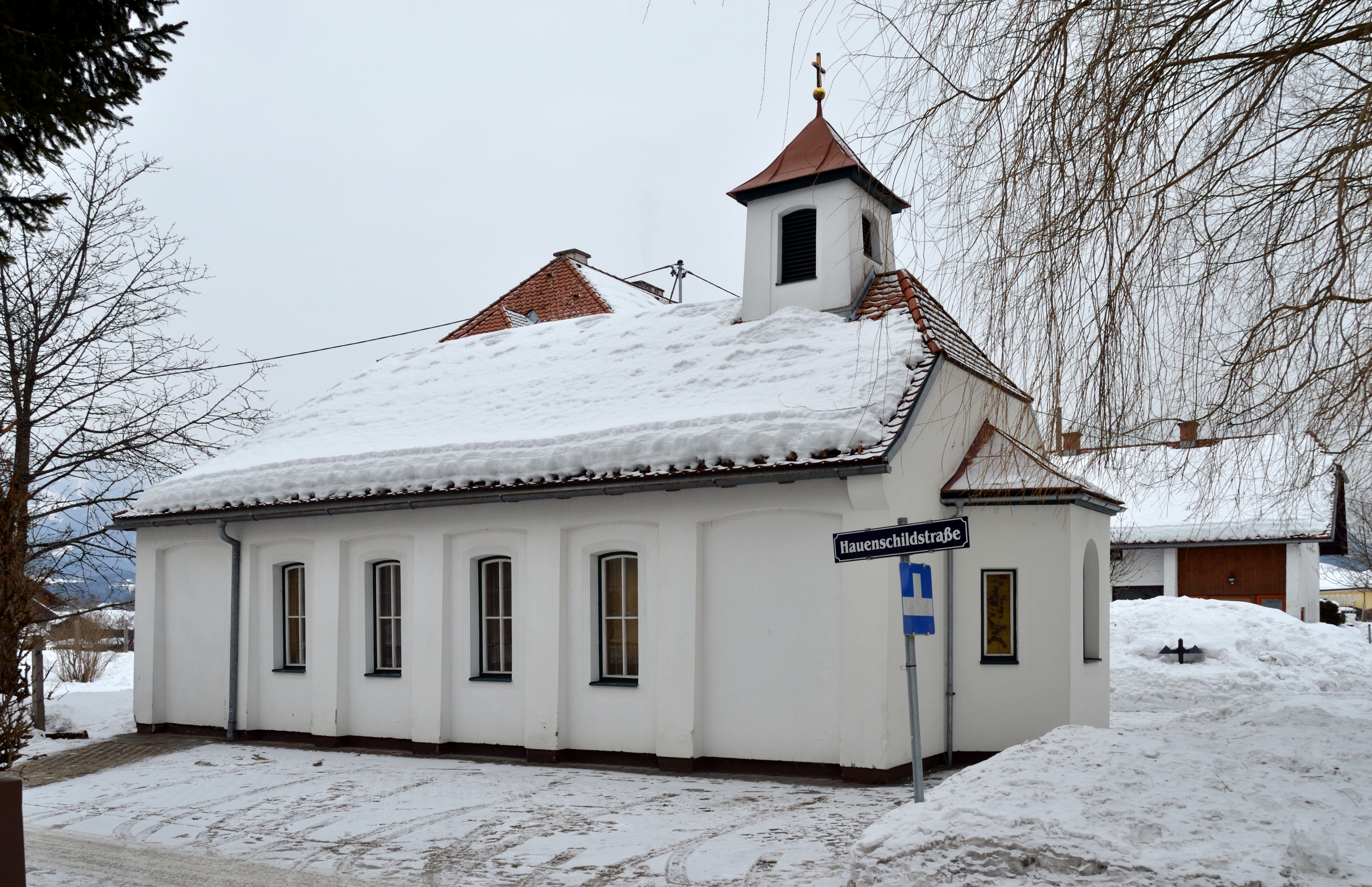 The protestant church Zum Guten Hirten in Windischgarsten, Upper Austria, is protected as a cultural heritage monument.